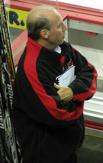 Calgary Flames head coach Mike Keenan watching players at the Flames' 2008 rookie camp.